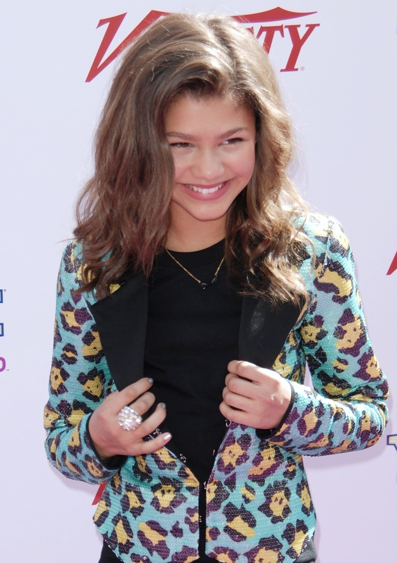 Actress Zendaya Coleman attends the Variety's Power of Youth Event at Paramount Studios in Hollywood, CA, Oct 24, 2010.